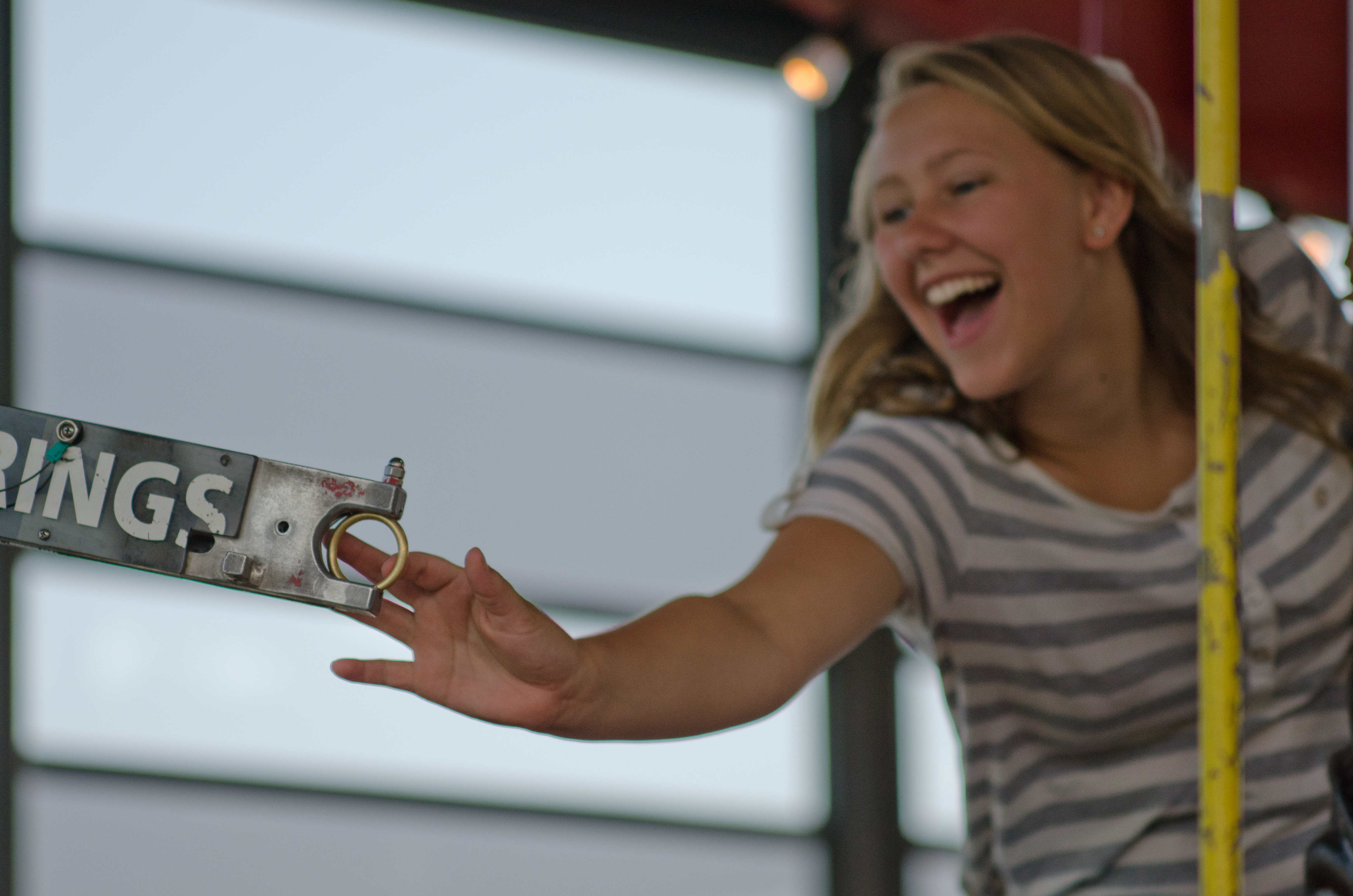 blackmagic view She got it! I don't know if she'll ever get too old for a Carousel. You can also view my photostream with Flickr Hive Mind.